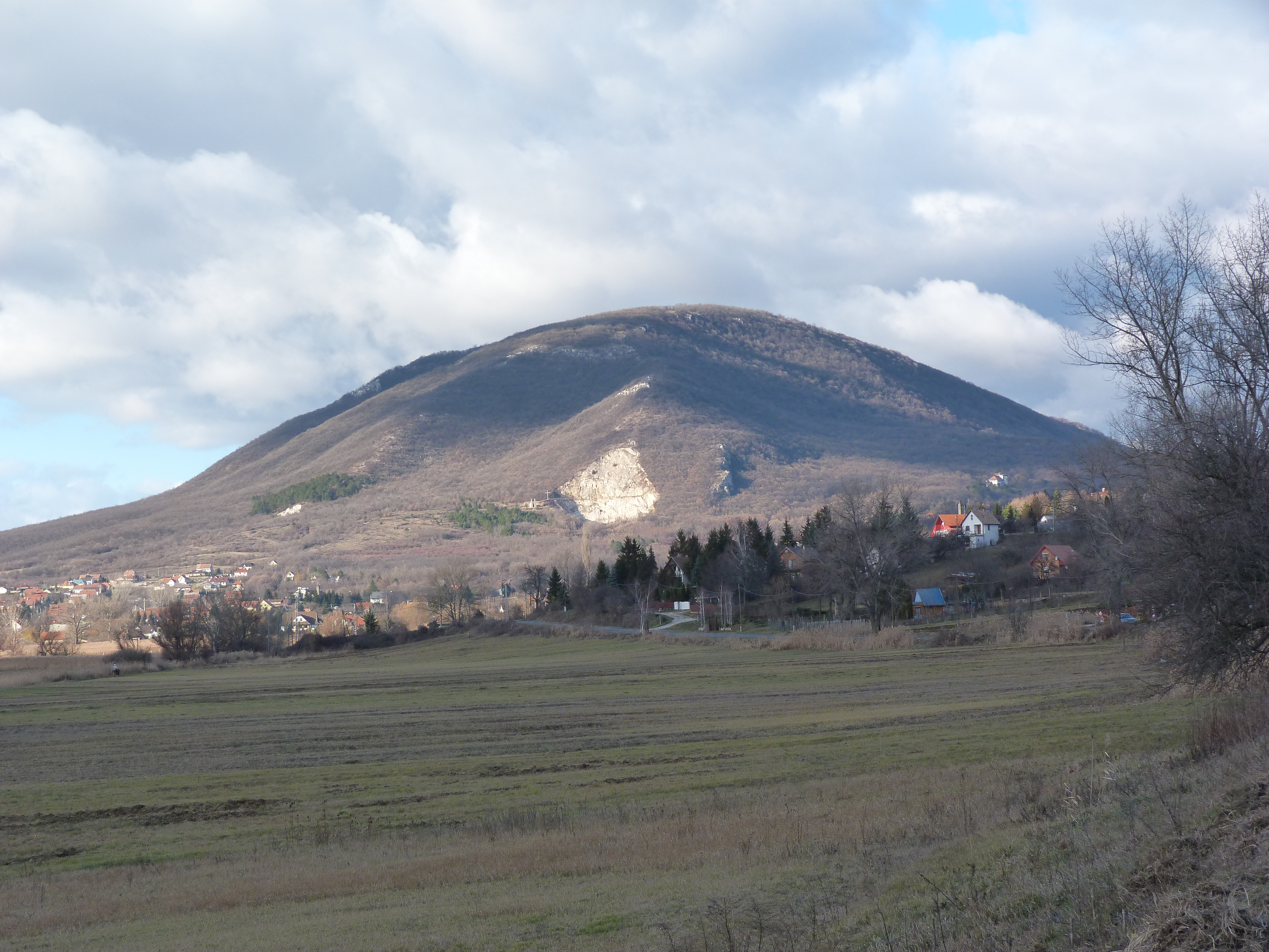 Live on the 5th of January, 2012. Mount Pilis (Hungarian: Pilis - hegy). 756 meter high, to north of Budapest. ©© Published under Creative Commons in the Metapolisz DVD line. All of the photos and vids in the Metapolisz DVD line are under Creative Commons and can be used even for commercial – for profit – purposes. Recommended Citation Derzsi Elekes Andor: Metapolisz DVD line ©© Megjelent Creative Commons alatt a Metapolisz sorozatban. A Metapolisz sorozat valamennyi képe és filmje Creative Commons alatti valamint kereskedelmi - for profit - célra is felhasználható. Ajánlott hivatkozás: Derzsi Elekes Andor: Metapolisz DVD line